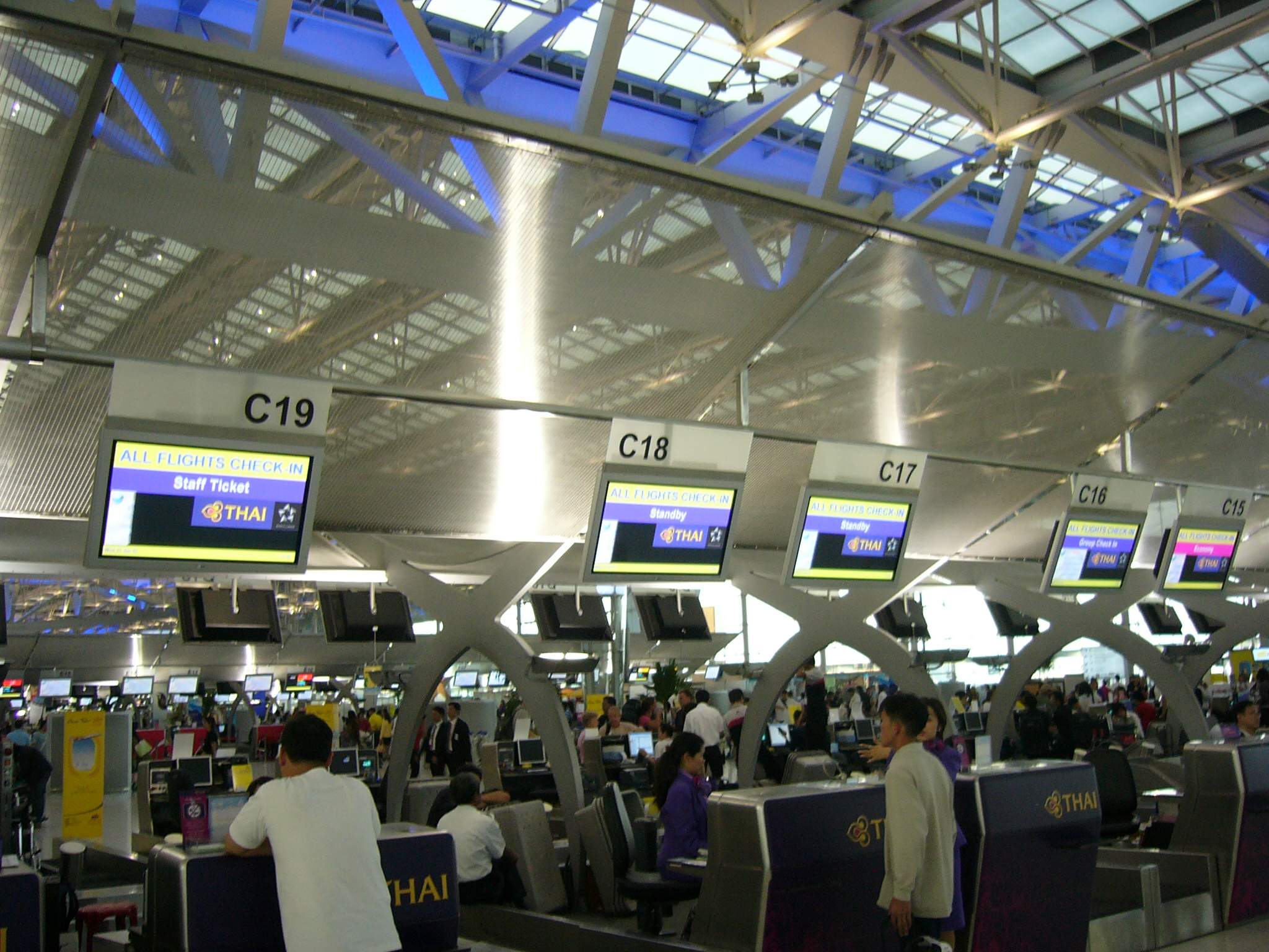 Thai Airways check-in counters at Suvarnabhumi International Airport passenger terminal, Thailand from l.t.r.: C 19: All Flights Check-In & Staff ticket(s) C 18 and 17: All Flights Check-In & Standby C 16: All Flights Check-In & Group Check-in C 15: All Flights Check-In & Economy (class) N.B. C refers to the row, not the concourse.